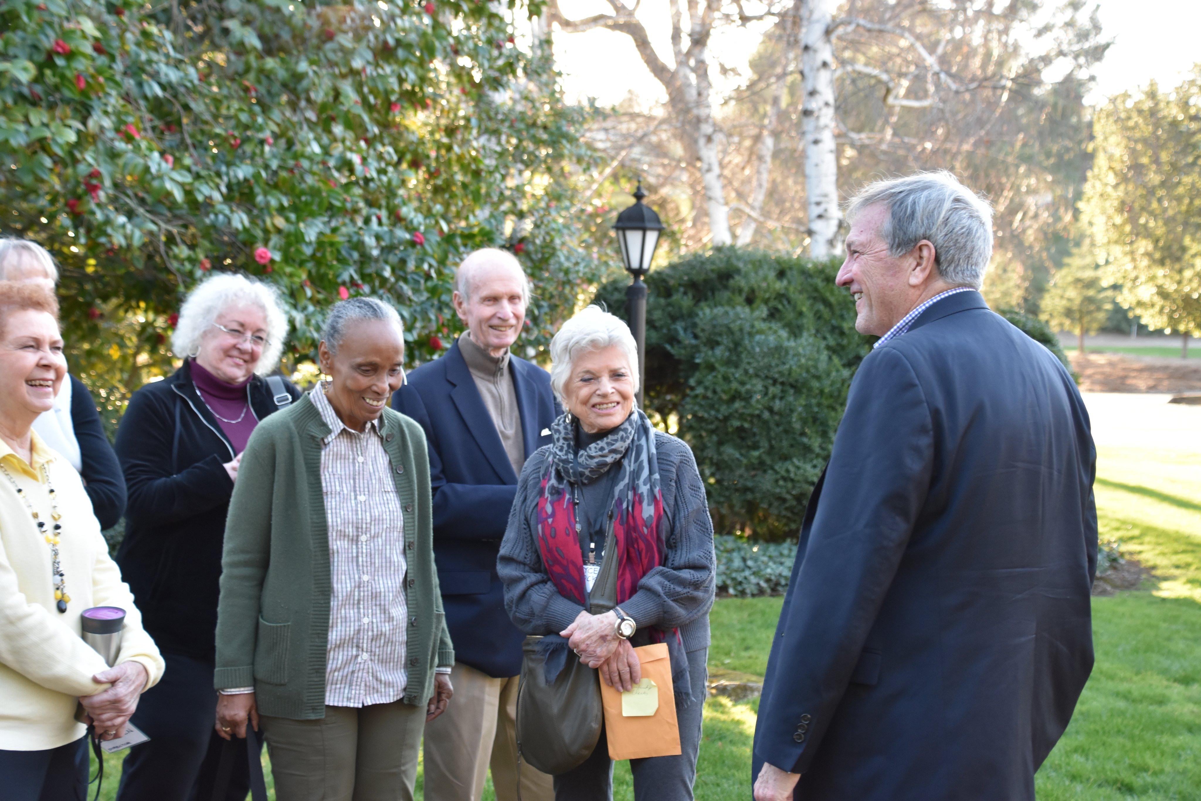 Enjoyed chatting about issues of the day with Rossmoor residents. Thank you for the questions and for inviting me!